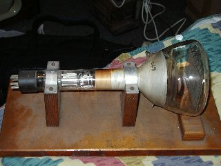 monoscope